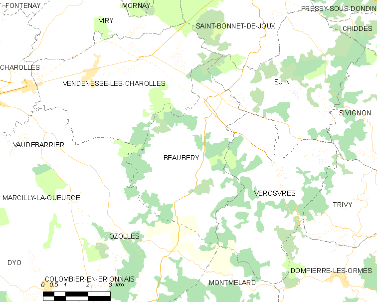 Map of French municipality